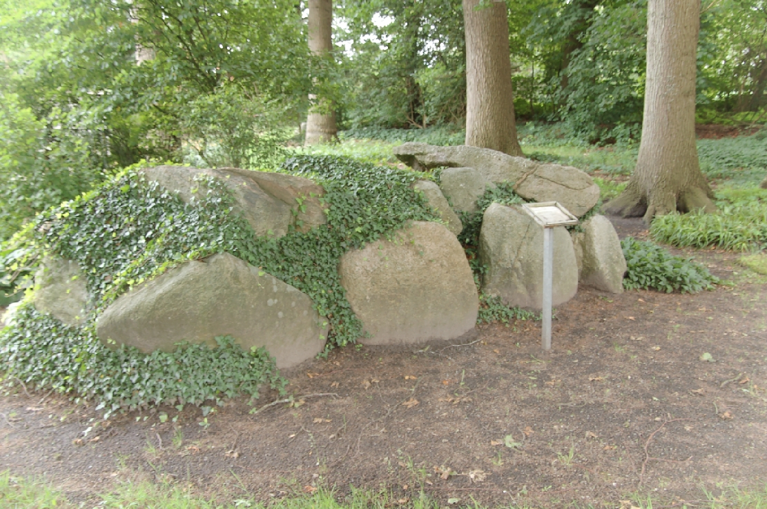 Pictures